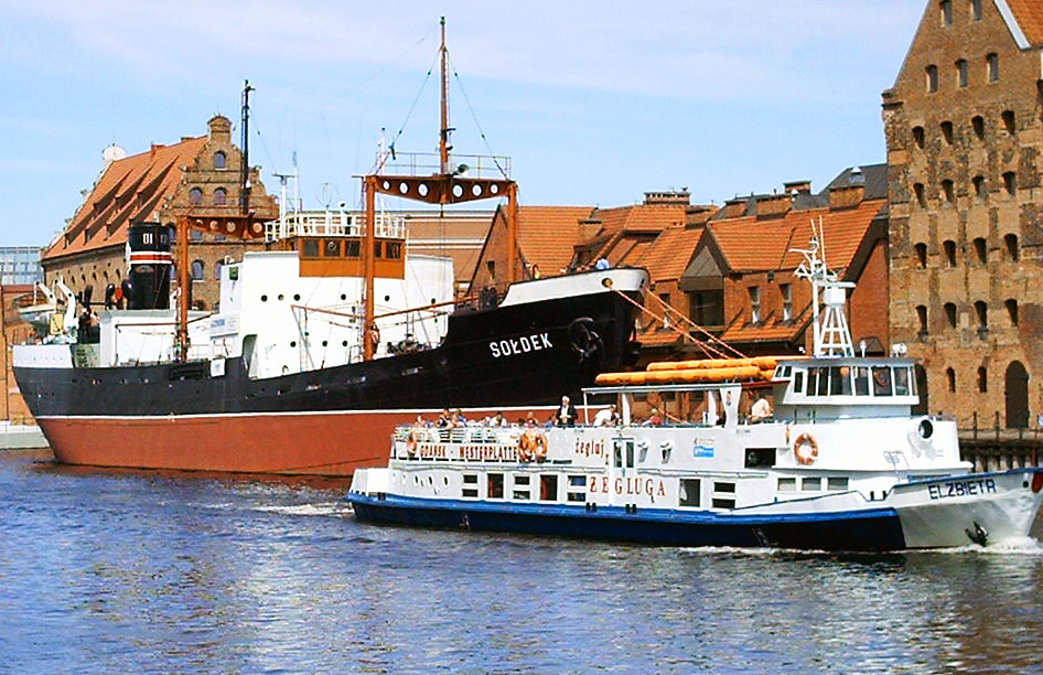 Two ships in Gdansk, Poland